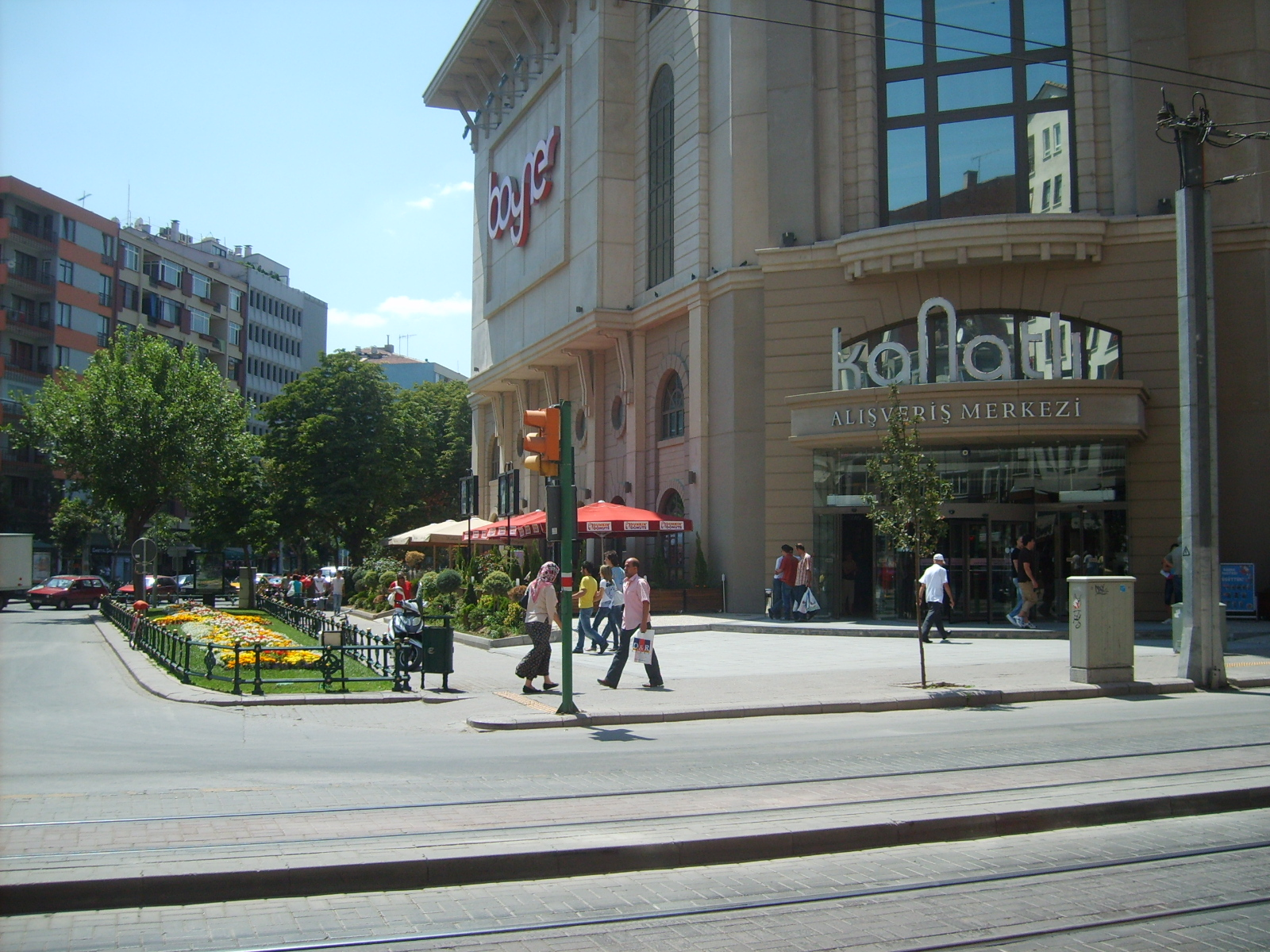 Eskişehir Kanatlı